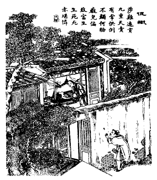 19th-century illustration of a scene from the short story "The Fighting Cricket" collected in Strange Tales from a Chinese Studio (1740).